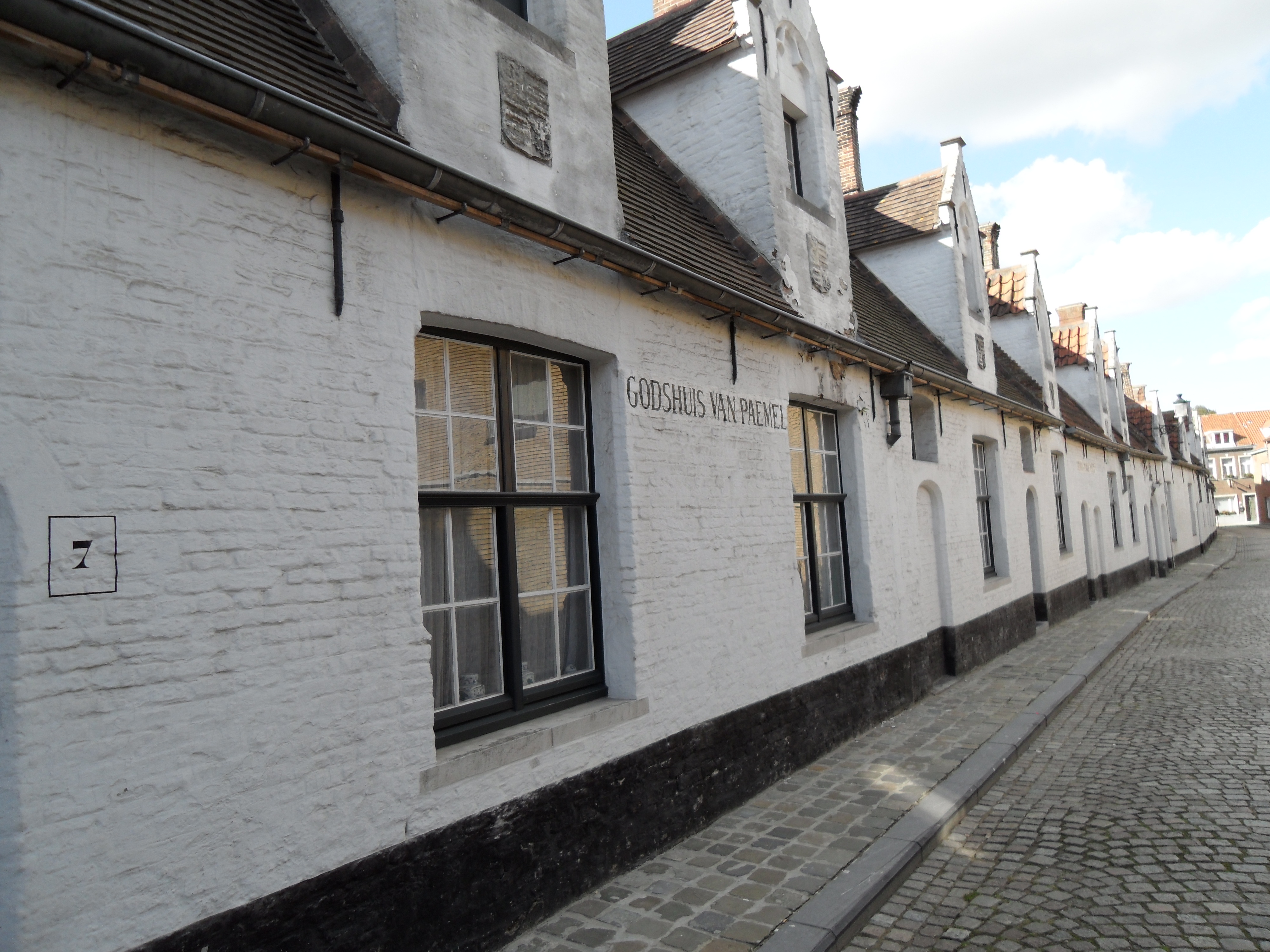 Kammakersstraat